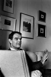 Gilles Petitpierre